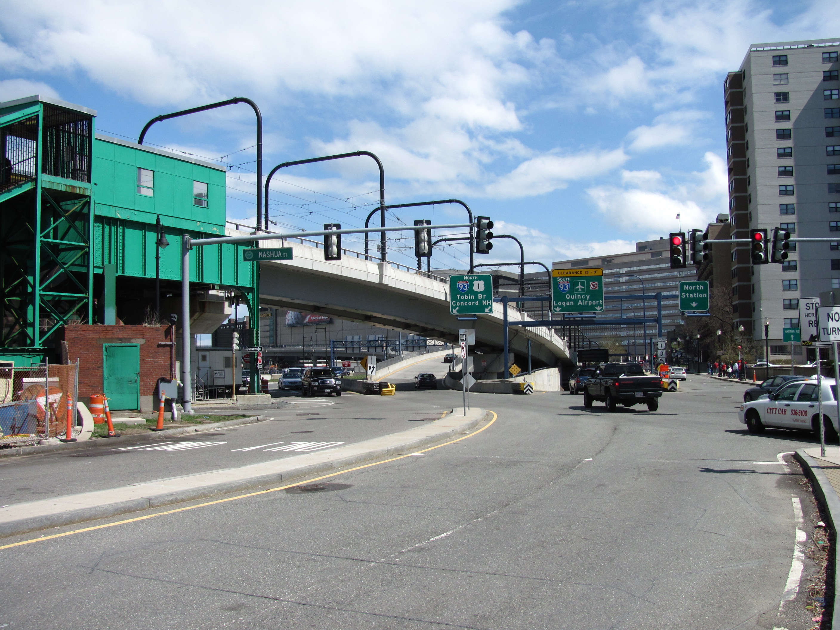 Leverett Circle, Boston Massachusetts - Post Big Dig